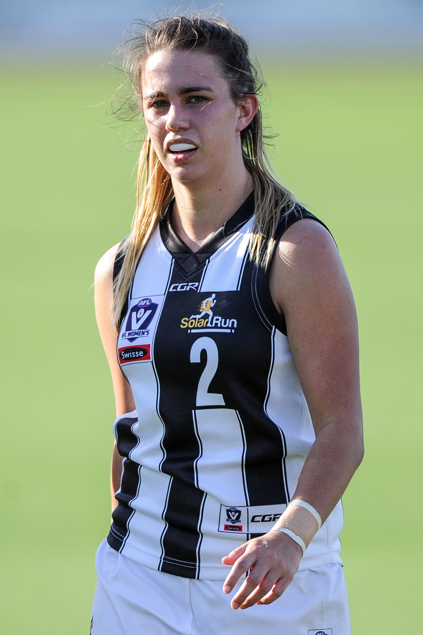 Chloe Molloy of Collingwood during the 2018 VFLW round 8 match between NT Thunder and Collingwood at TIO Stadium on Saturday, 30 June 2018 in Darwin, Australia.